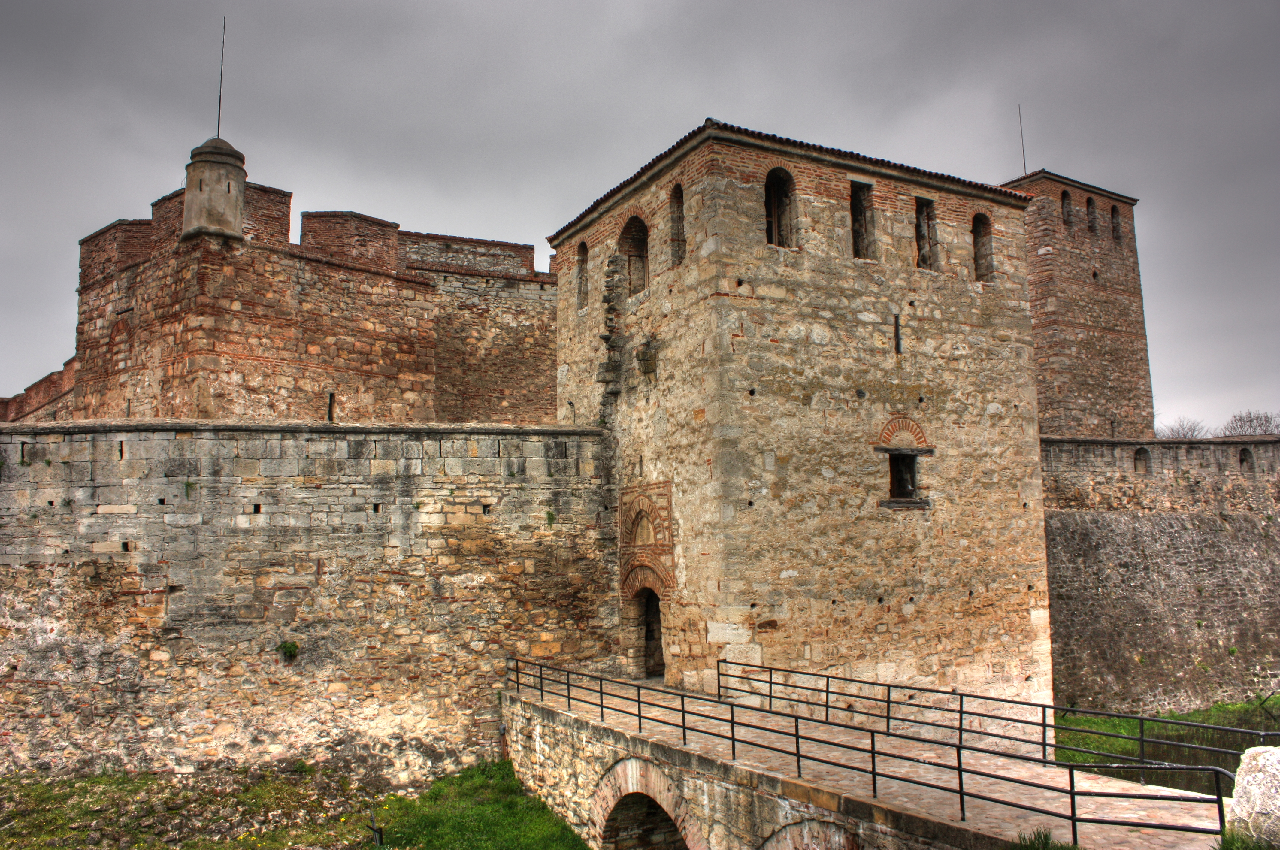 Baba Vida is a medieval fortress in Vidin in northwestern Bulgaria and the town's primary landmark. It consists of two fundamental walls and four towers and is said to be the only entirely preserved medieval castle in the country.